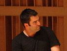 Talks withs Jimmy Wales (right) and the two directors of Truth in Numbers, Scott Glosserman (far left) and Nic Hill (center) after the screaning of the documentary during Wikimania 2010 in Gdansk